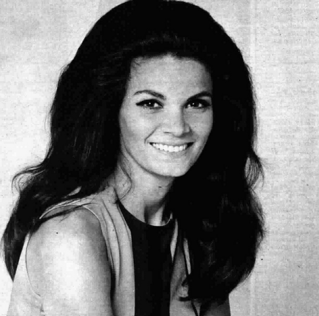 actress Florinda Bolkan poses for the magazine